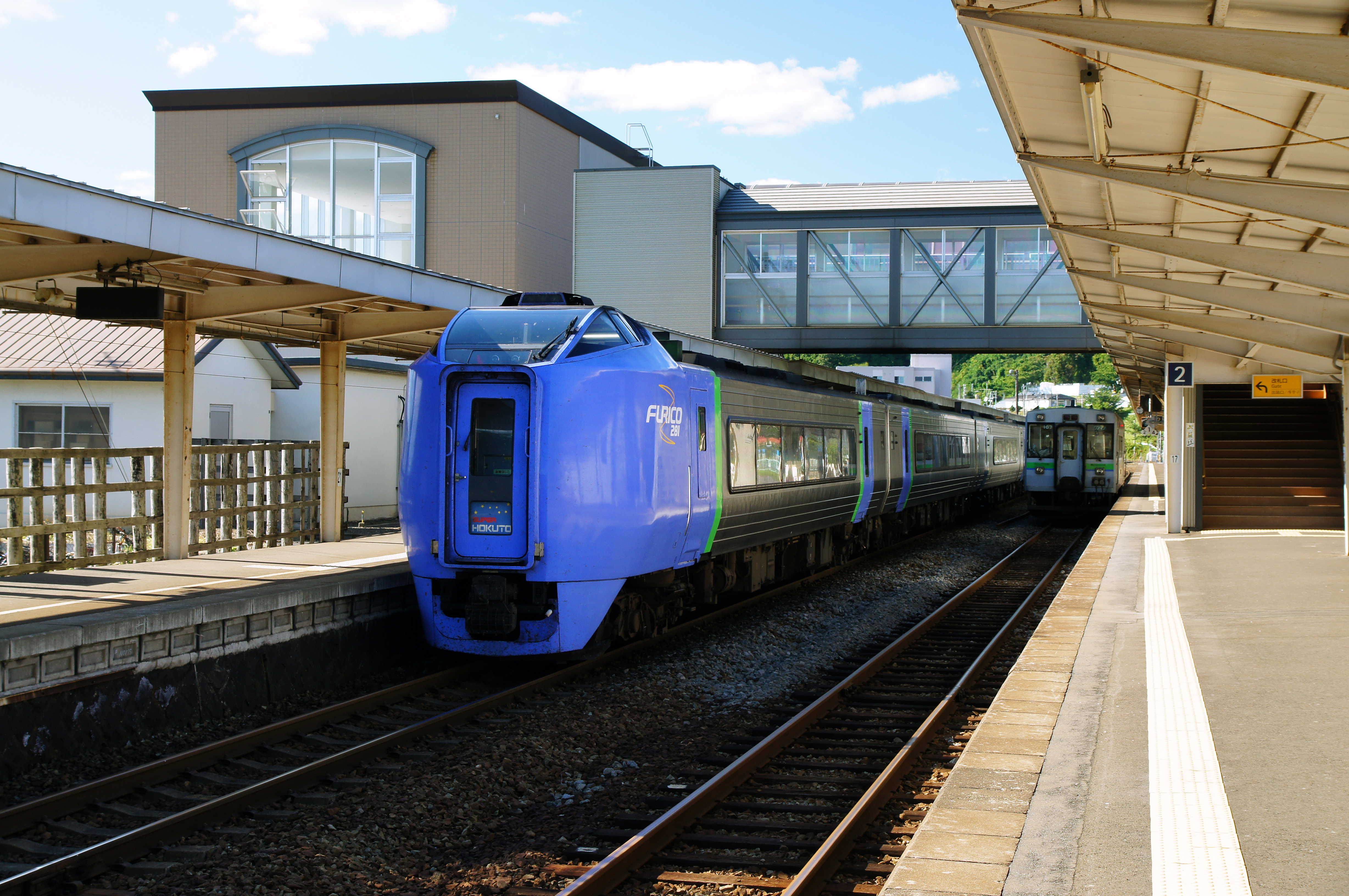 The platforms at Tōya Station on the Muroran Main Line in Toyako, Hokkaido, Japan, with a KiHa 281 series DMU on a Super Hokuto service